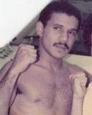 Puerto Rican boxer Edwin Rosario, cropped from existing Commons photo